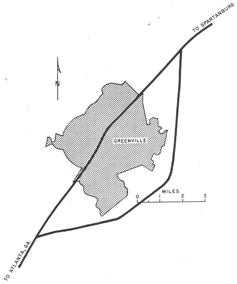 Interstates in today's terms I-85 (bypasses to the south) I-185 (not connected to I-385) I-385 (not connected to I-185)